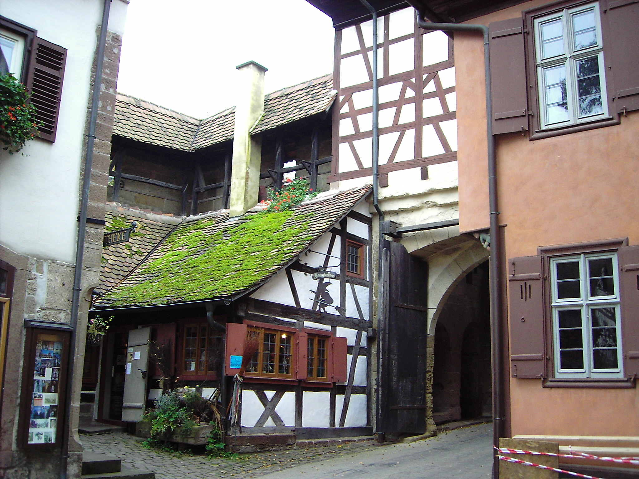 Maulbronn Monastery - Guard House